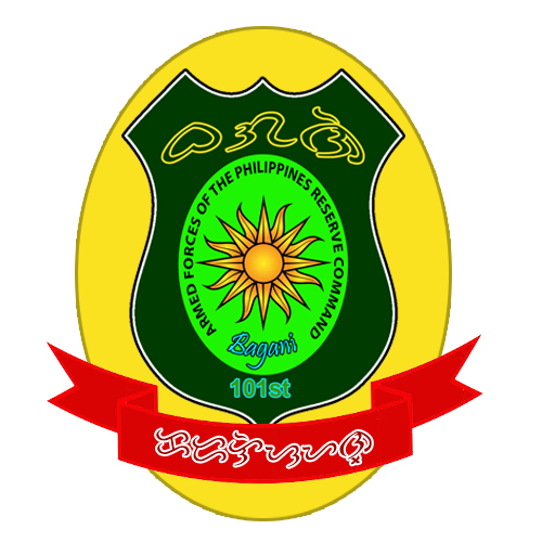 101st TASG Unit Seal.